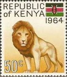 Stamp of Kenya depicting a lion. Cost 50 Kenyan cents.